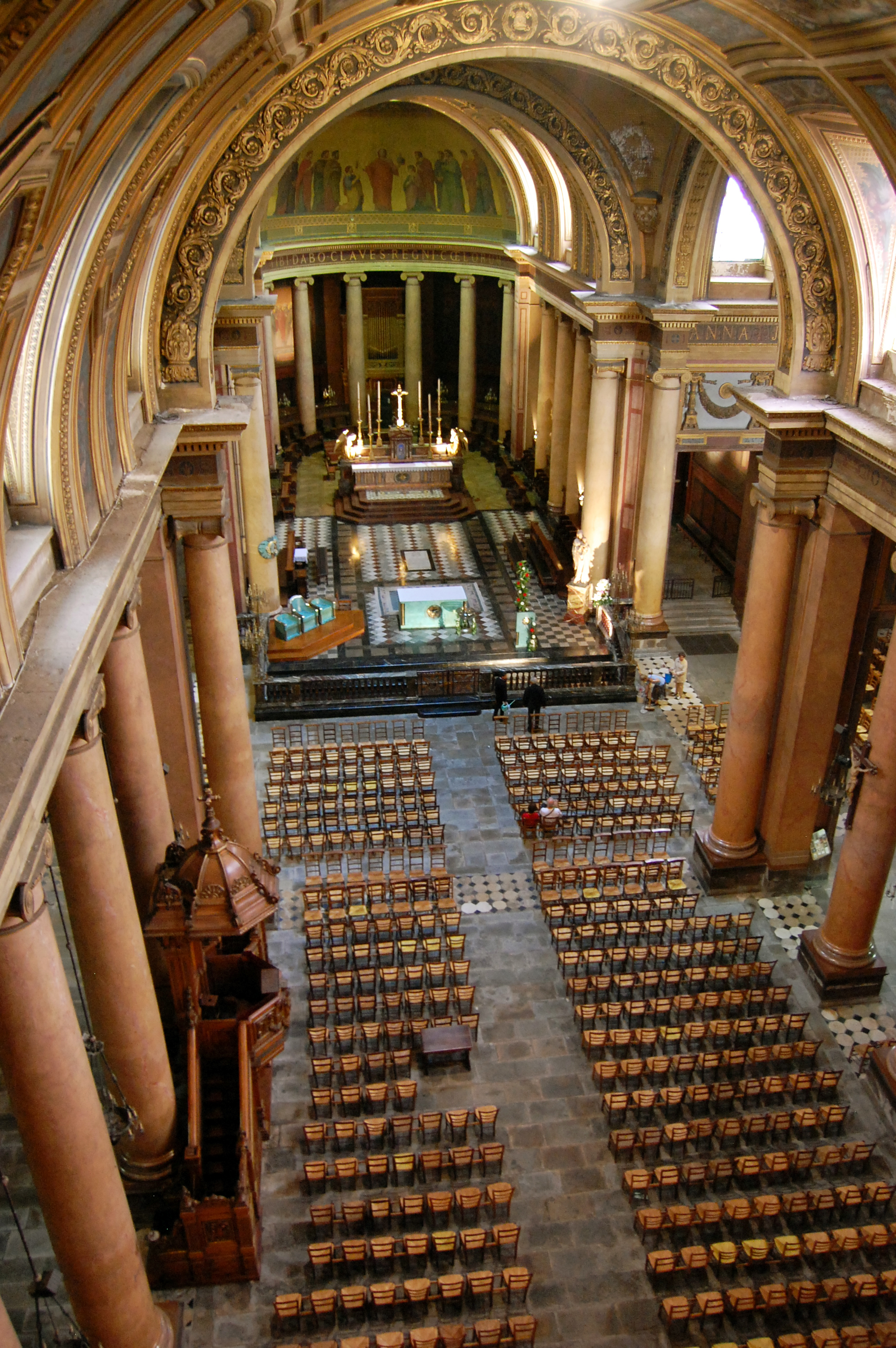 View of the nave in Rennes's cathedral